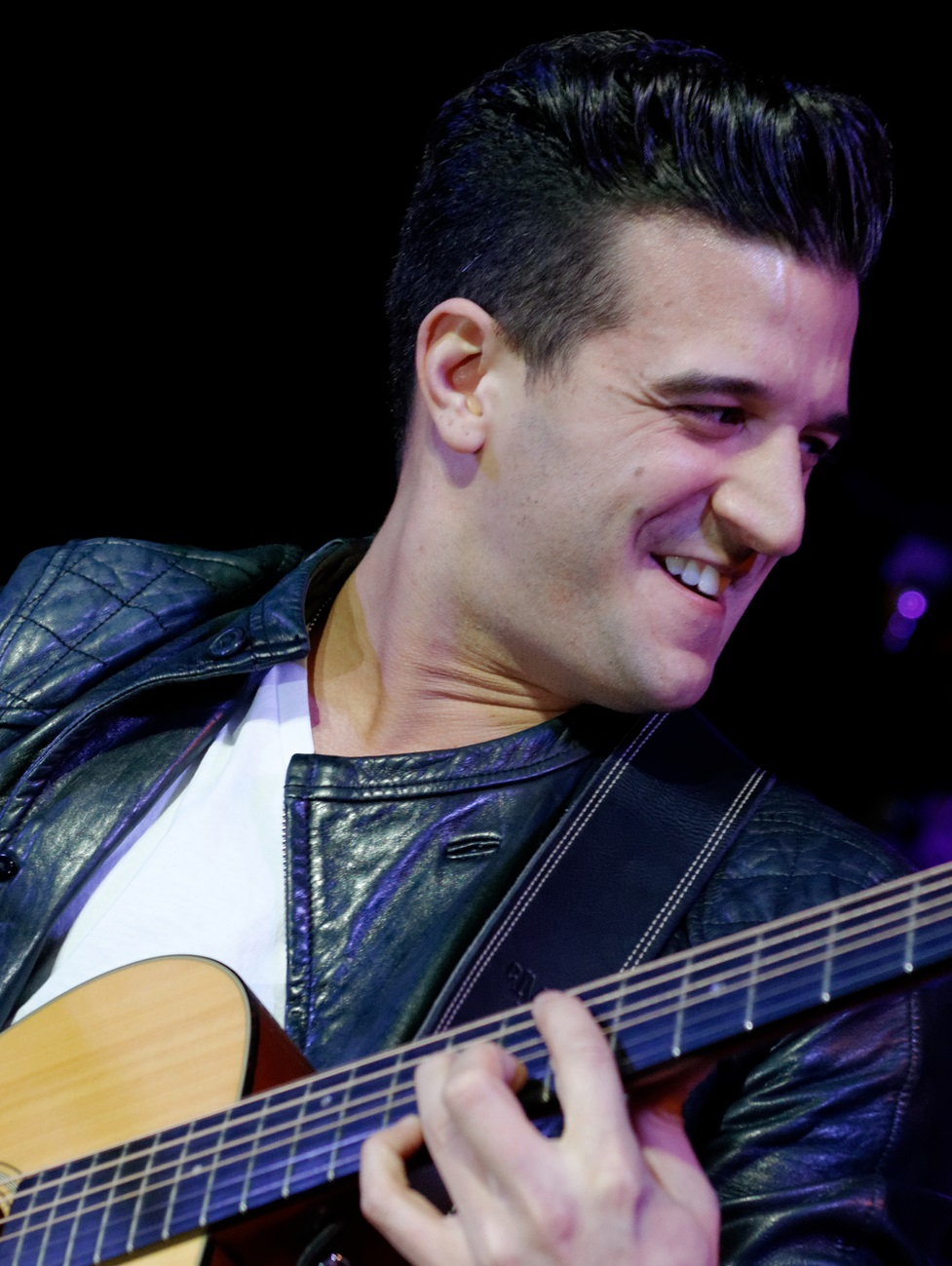 Mark Ballas performing live at The Citadel Outlets' 12th Annual Tree Lighting Concert in Commerce CA on November 9th, 2013.